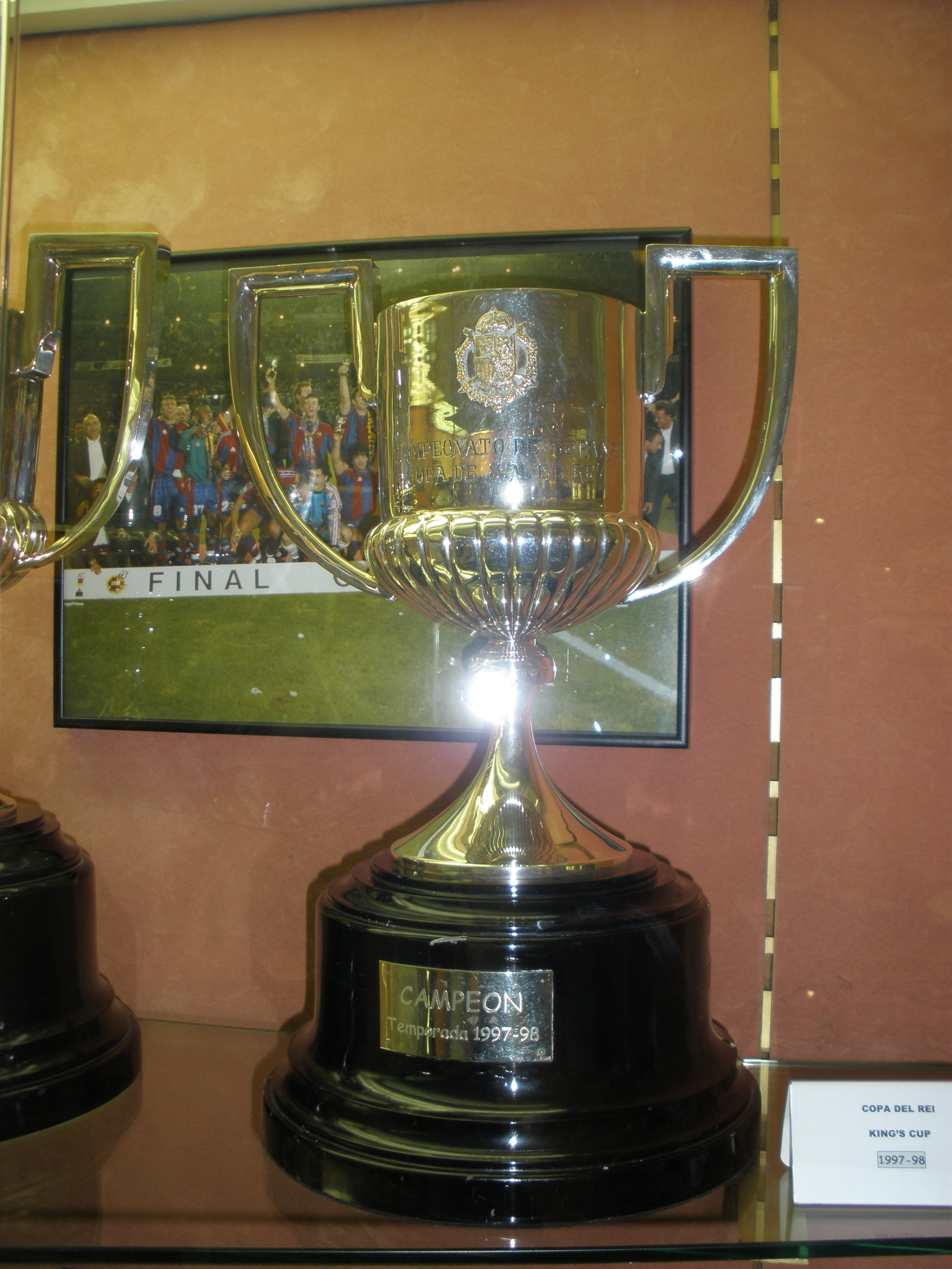 Trophy of the football Spanish Cup, exhibed in FC Barcelona's museum